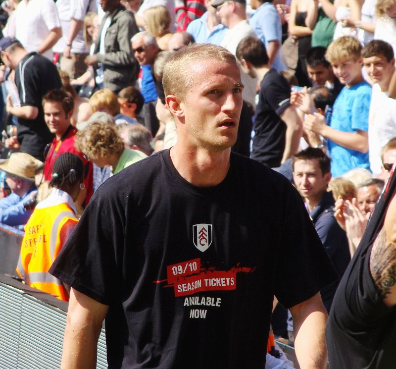 Brede Paulsen Hangeland (born 20 June 1981 in Houston, Texas) is an American born Norwegian footballer, currently playing for Fulham. Photo taken before the final match of the 2009 season against Everton